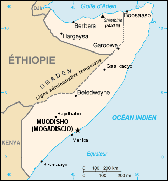 French political map of Somalia